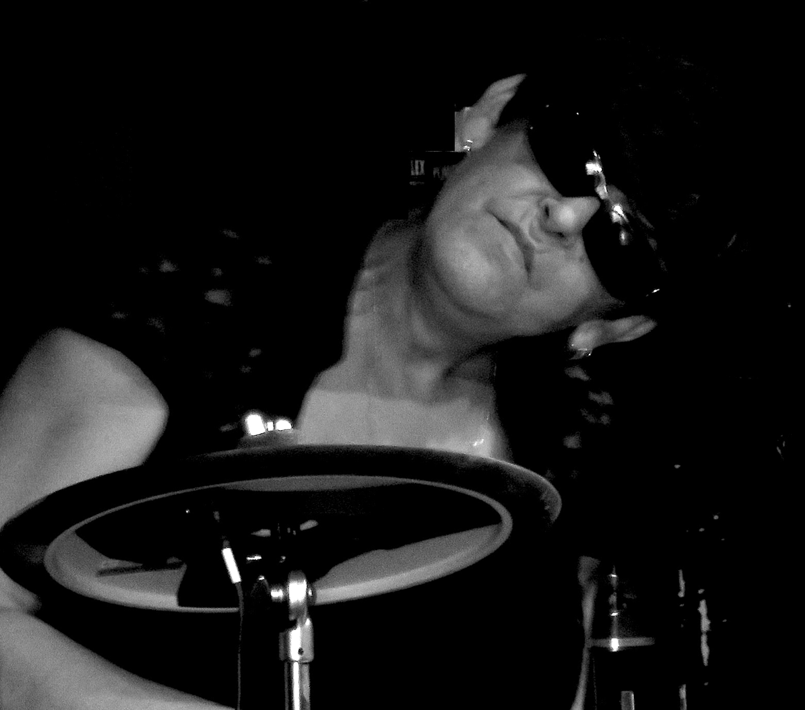 Close up shot of Billie Davies at The Mint in New Orleans